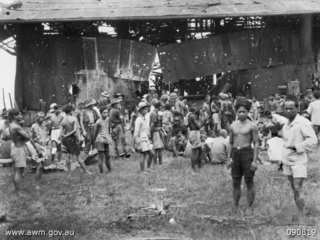 Australian War Memorial (AWM) catalog number 090819 TARAKAN, BORNEO. 1945-05-01. NATIVES OF TARAKAN COLLECTED INTO A COMPOUND AND GUARDED BY ALLIED TROOPS AFTER THE D- DAY LANDING.